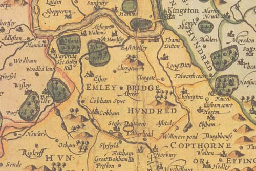 Detail of John Speed’s map of Surrey from 1610, showing the Hundred of Elmbridge, at that time titled Emley Bridge Hundred